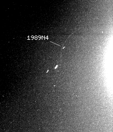 Galatea (1989N4) inside of a faint ring arc as seen by Voyager 2 in August 1989. The image is smeared due to the 155 second exposure, and the rapid relative motion of Galatea and Voyager. Hence, Galatea appears more elongated than in reality. Neptune is overexposed to the right.